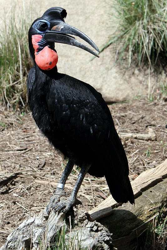 Abyssinian Ground-hornbill or Northern Ground-hornbill (Bucorvus abyssinicus) at San Diego Zoo, USA.